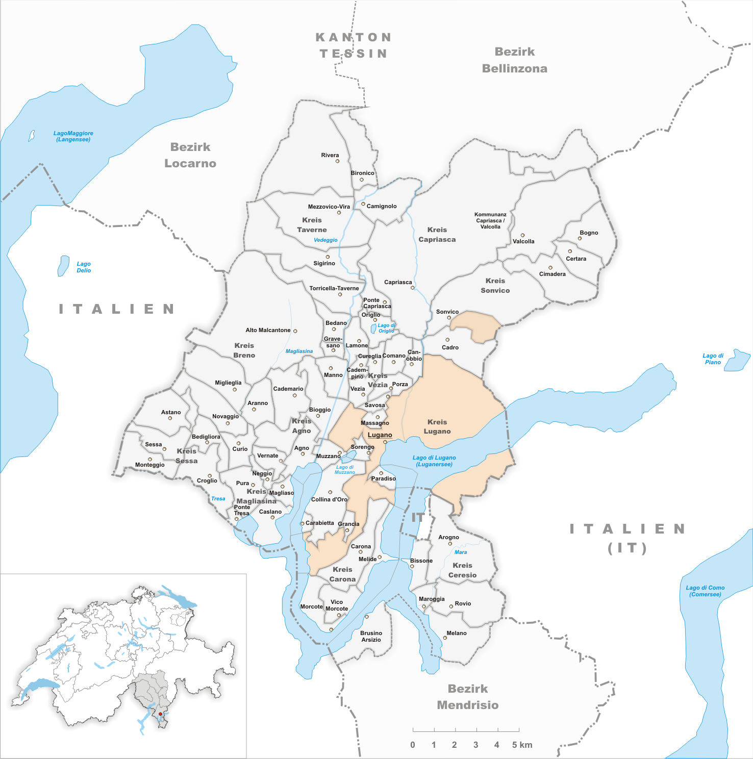 Municipality Lugano